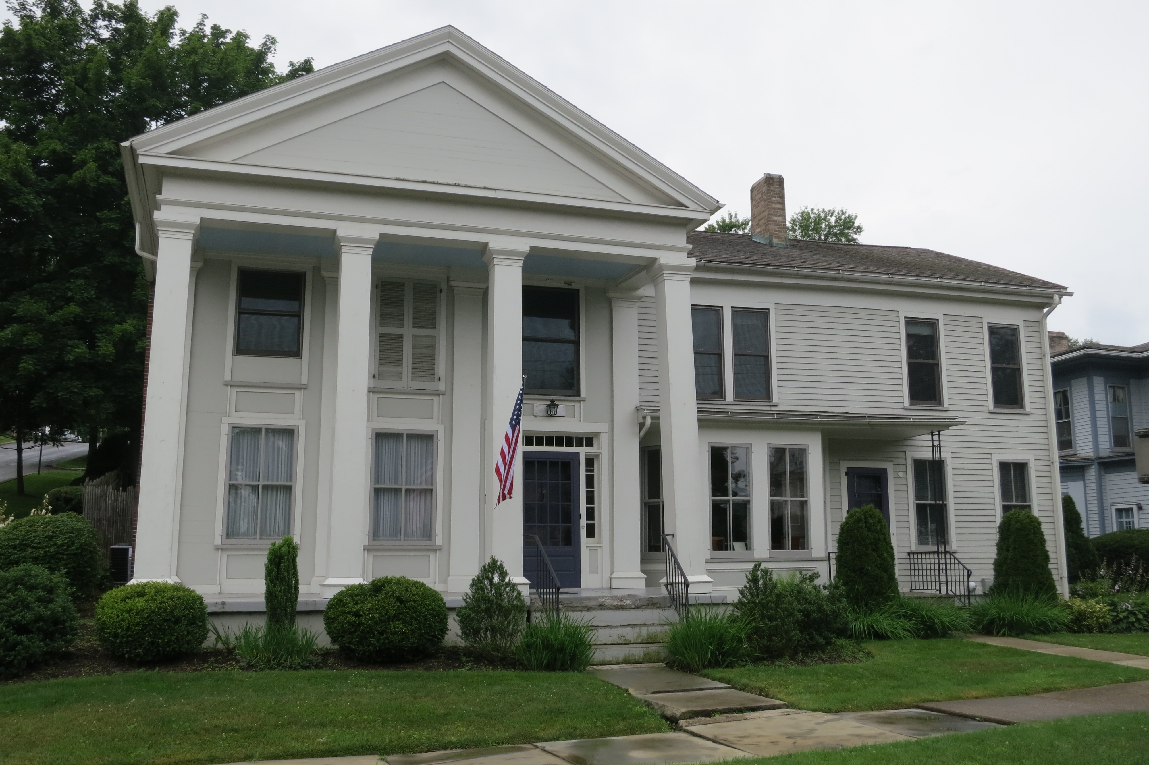 Photo taken on July 7, 2013 of former Congressman John N. Hungerford's house on 54 West First Street in Corning, New York.